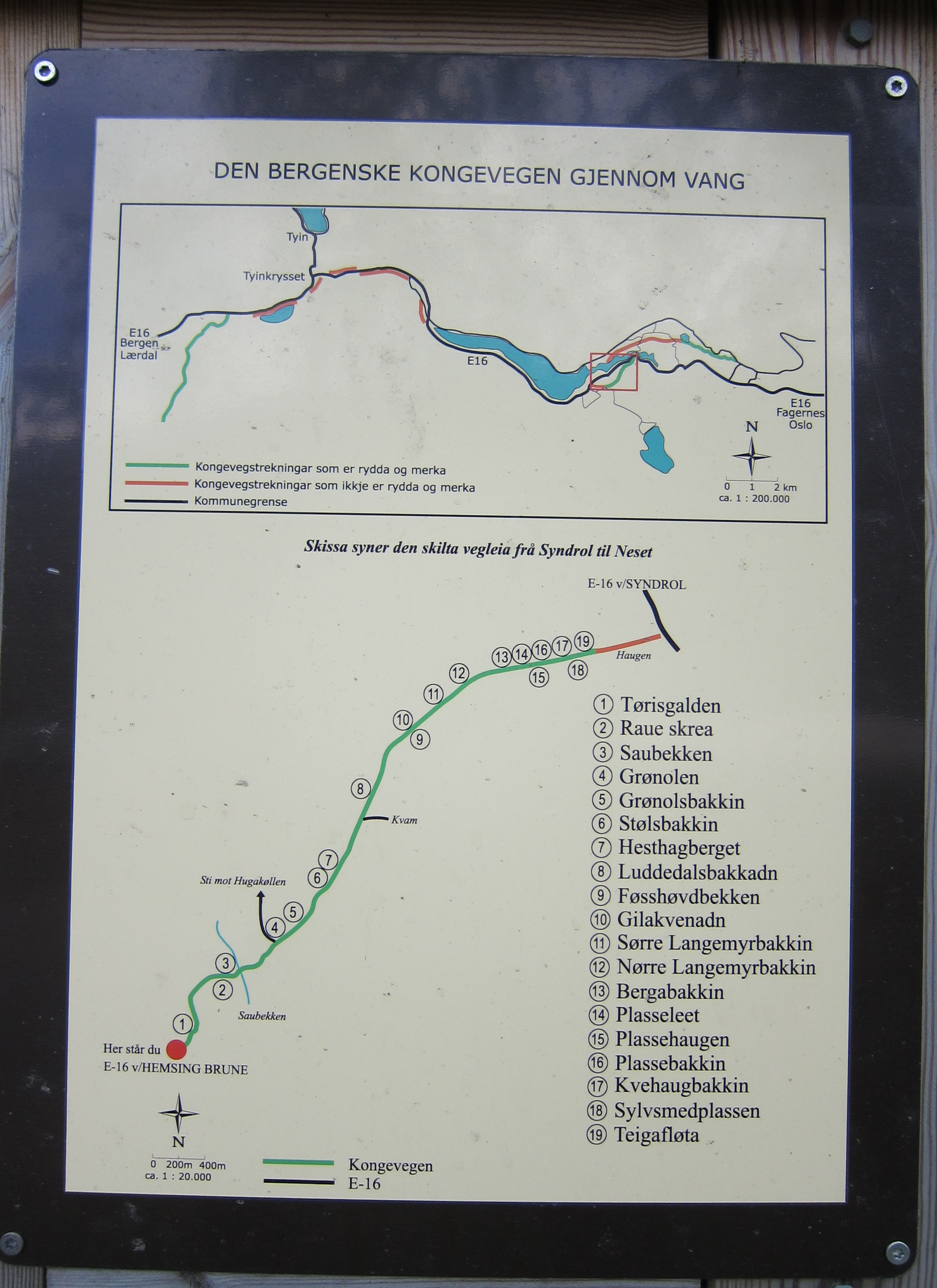 Information about the abandoned Bergen main road at E16, Kvam, Vang, Valdres.